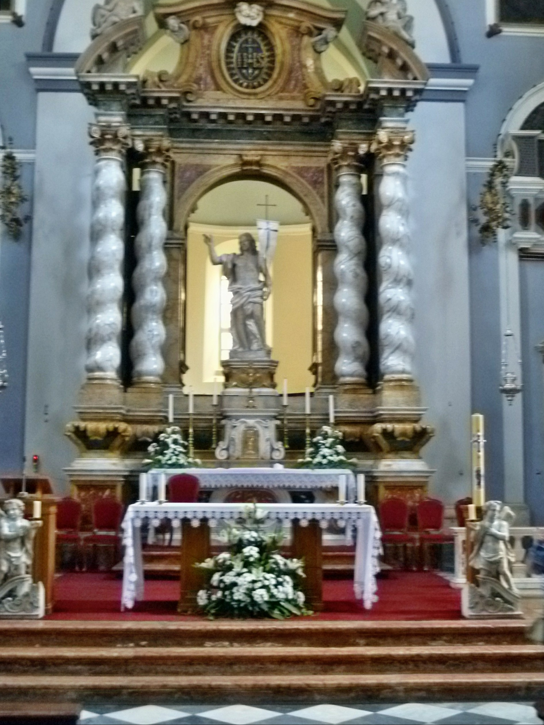 Interior of the Franciscan church, Dubrovnik, Croatia